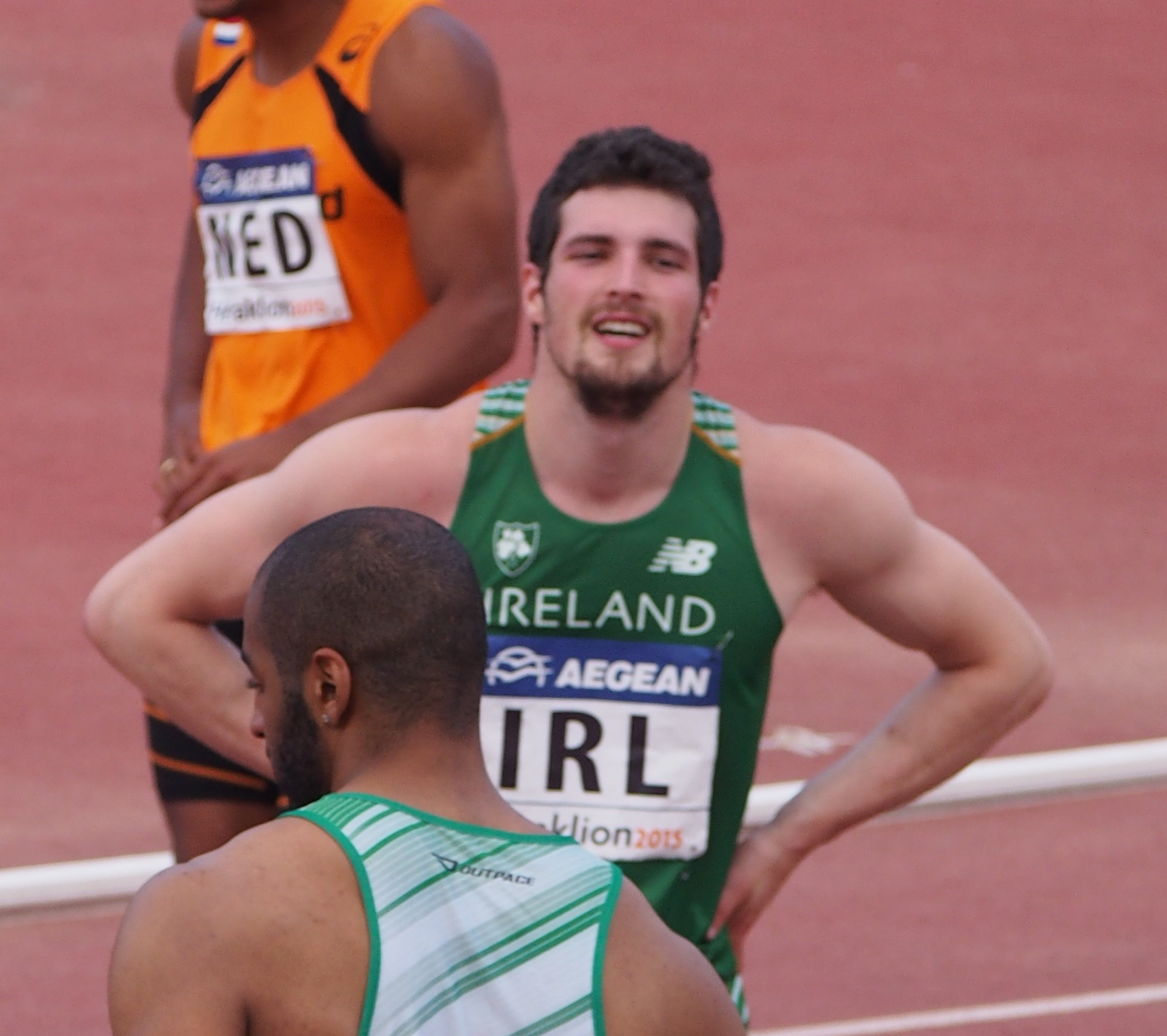 Ben Reynolds during the 2015 European Teams Championship First League.